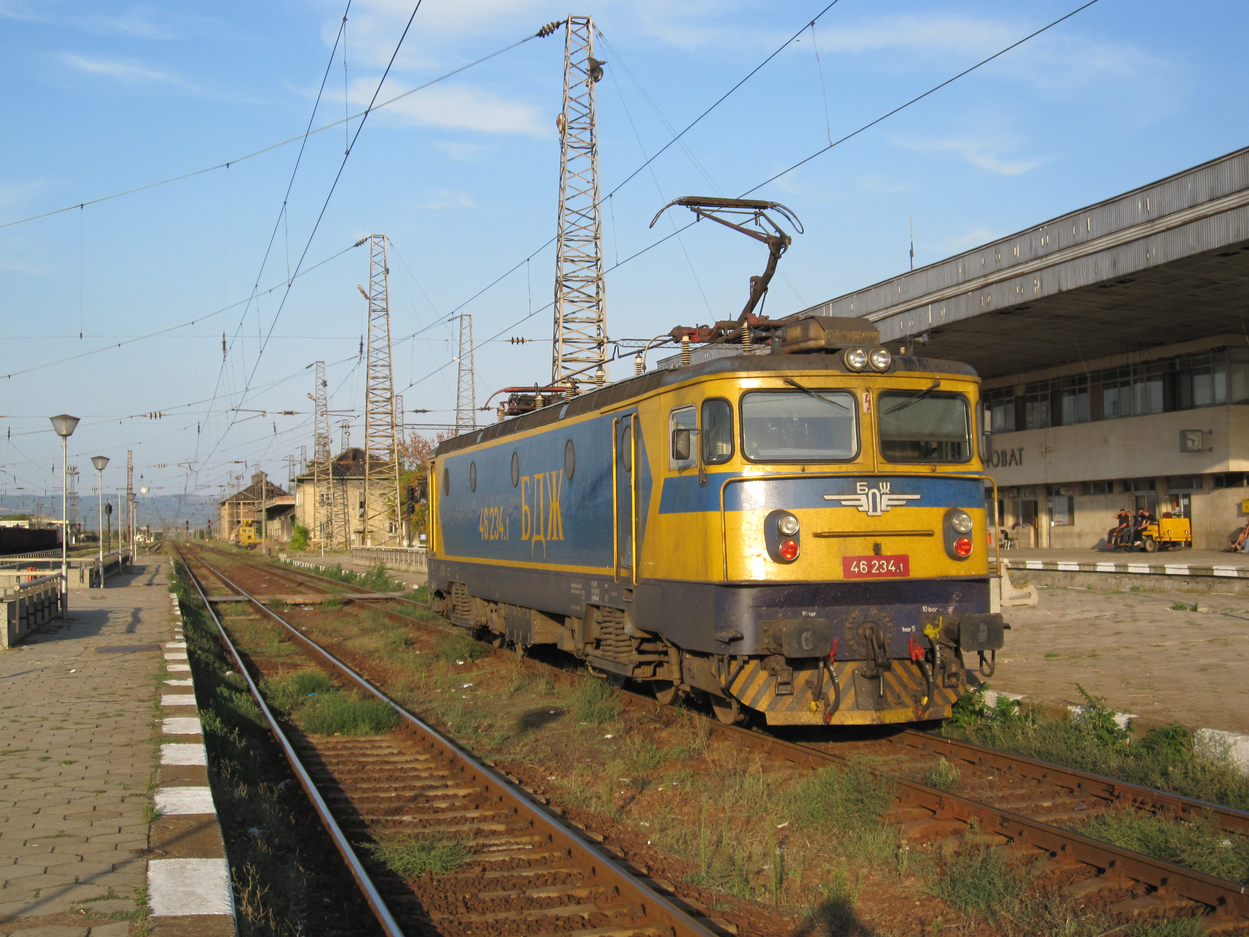 Bulgaria Trip Day Three. Karnobat is a major junction station where the lines to the Black Sea ports of Burgas and Varna split. As a result some trains from Sofia via Plovdiv split and join here at Karnobat. On very warm September evening, 46234 is in between turns and its next turn of duty will be a Burgas portion working off train 8613, 10:45 Sofia to Varna. Class 46s were built by Electroputere in Romania being similar to CFR class 40. They were later modernised by Koncar in Croatia.